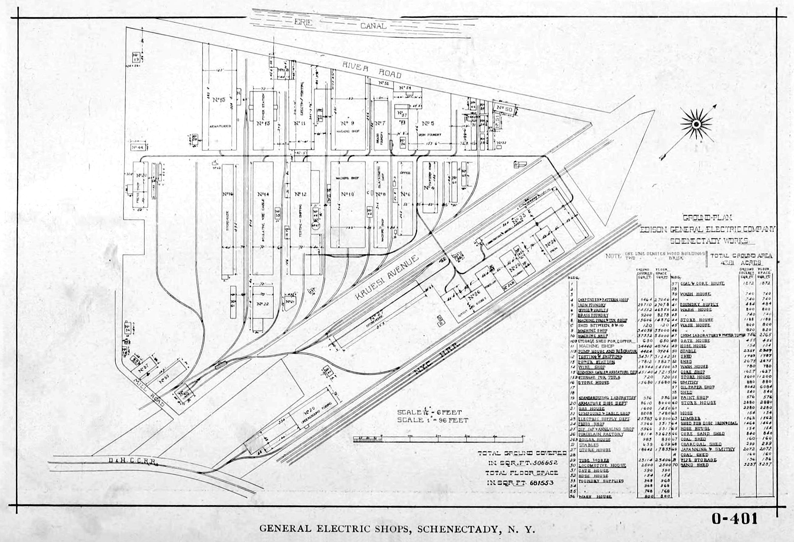 General Electric Shops, Schenectady, NY, 1896